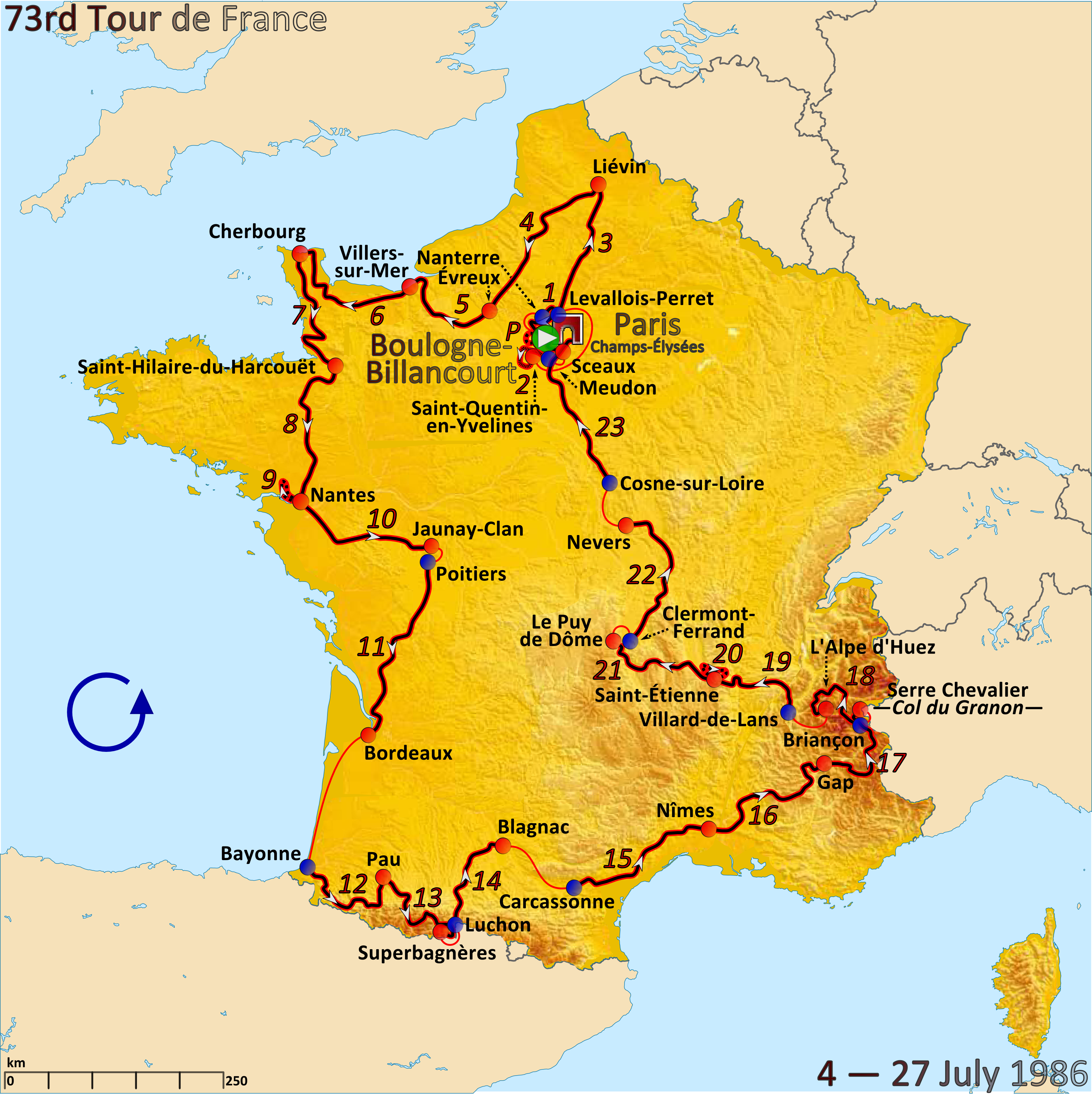 Map of the 1986 Tour de France created in Inkscape using accurate stage maps from touratlas.nl.